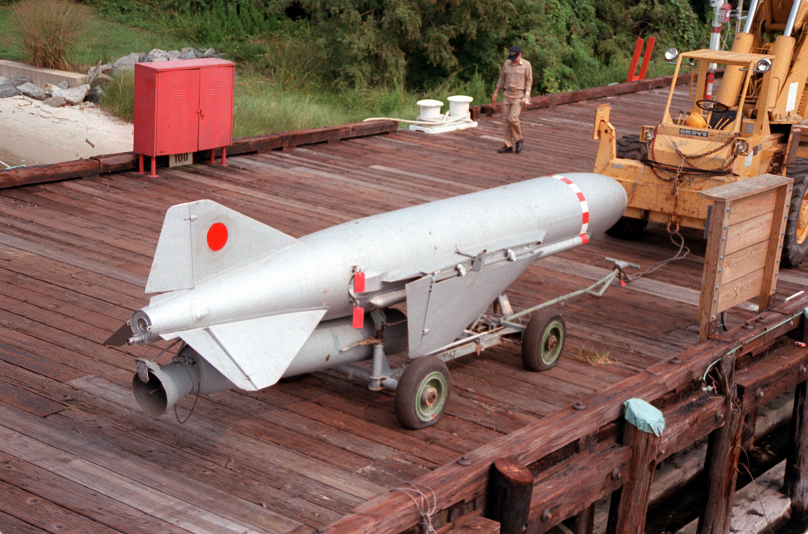 A P-15 SS-N-2c Styx SSM from the Soviet-built Tarantul I class missile corvette USNS HIDDENSEE (185NS9201). This Soviet-developed missile first entered operational service in 1973. It uses a solid fuel booster for the launch/acceleration phase and a liquid fuel turbojet sustainer motor for the cruise phase. The 21-foot-long missile weighs 5,570 pounds and has an 1,100-pound warhead. It has a 45 nautical mile range and uses an active radar-infrared homing system.